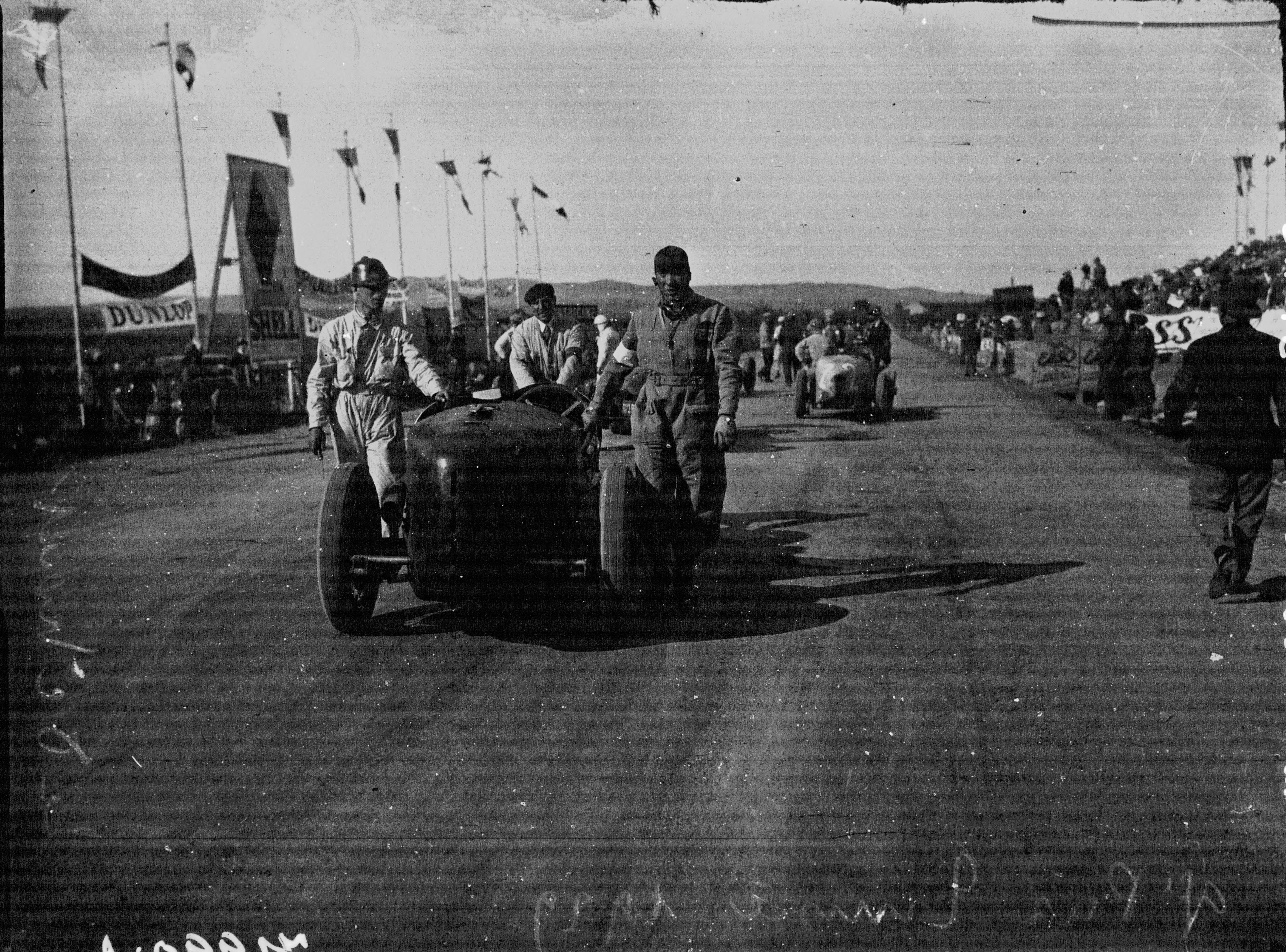 Grid of the 1929 Tunis Grand Prix